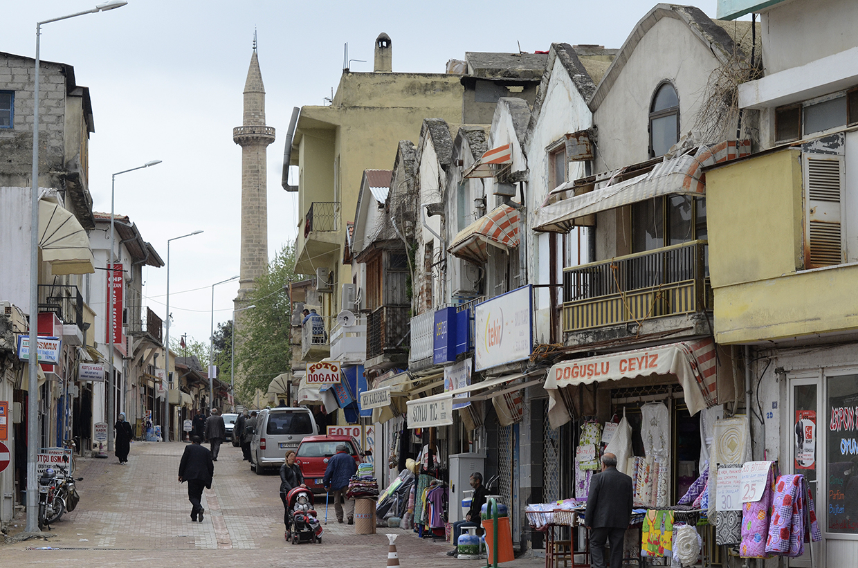 A view from Aşağı Çarşı St. in Kozan, Adana - Turkey.